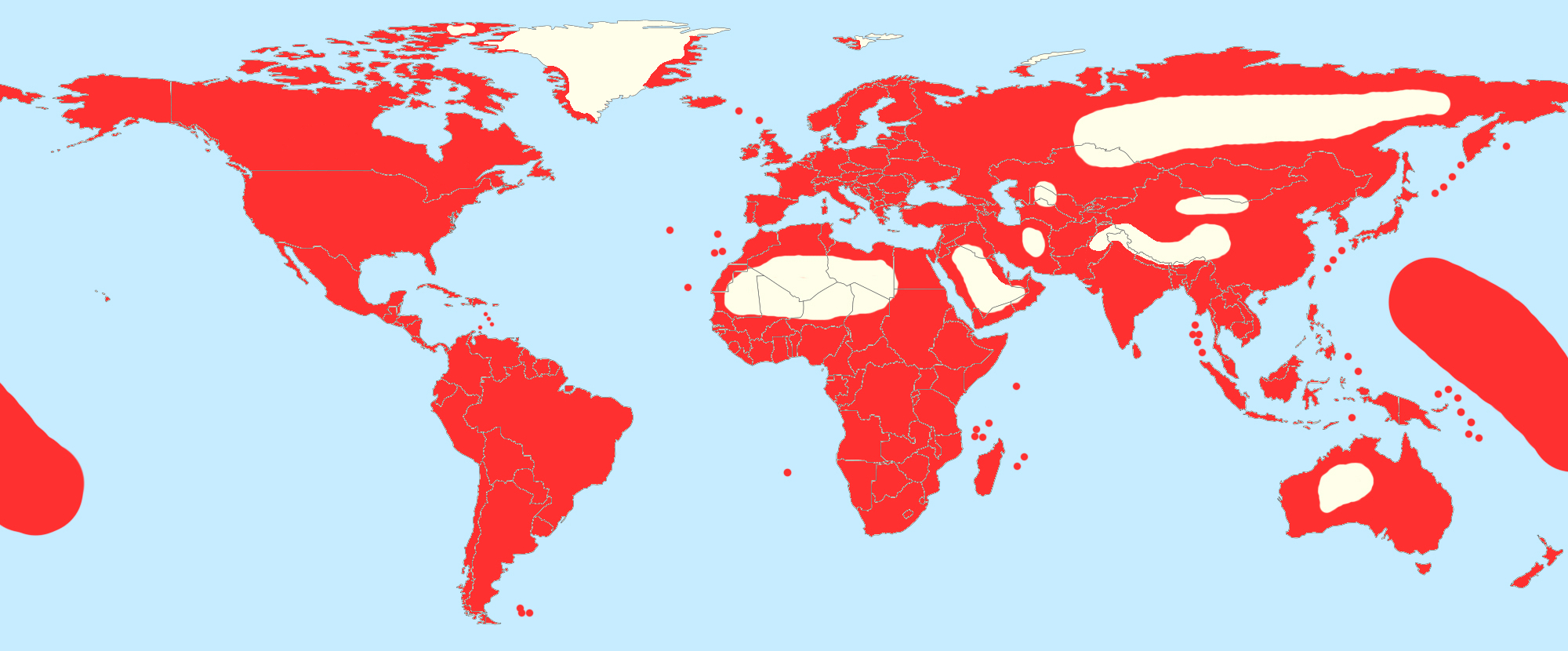 Distribution of the familiy Charadriidae